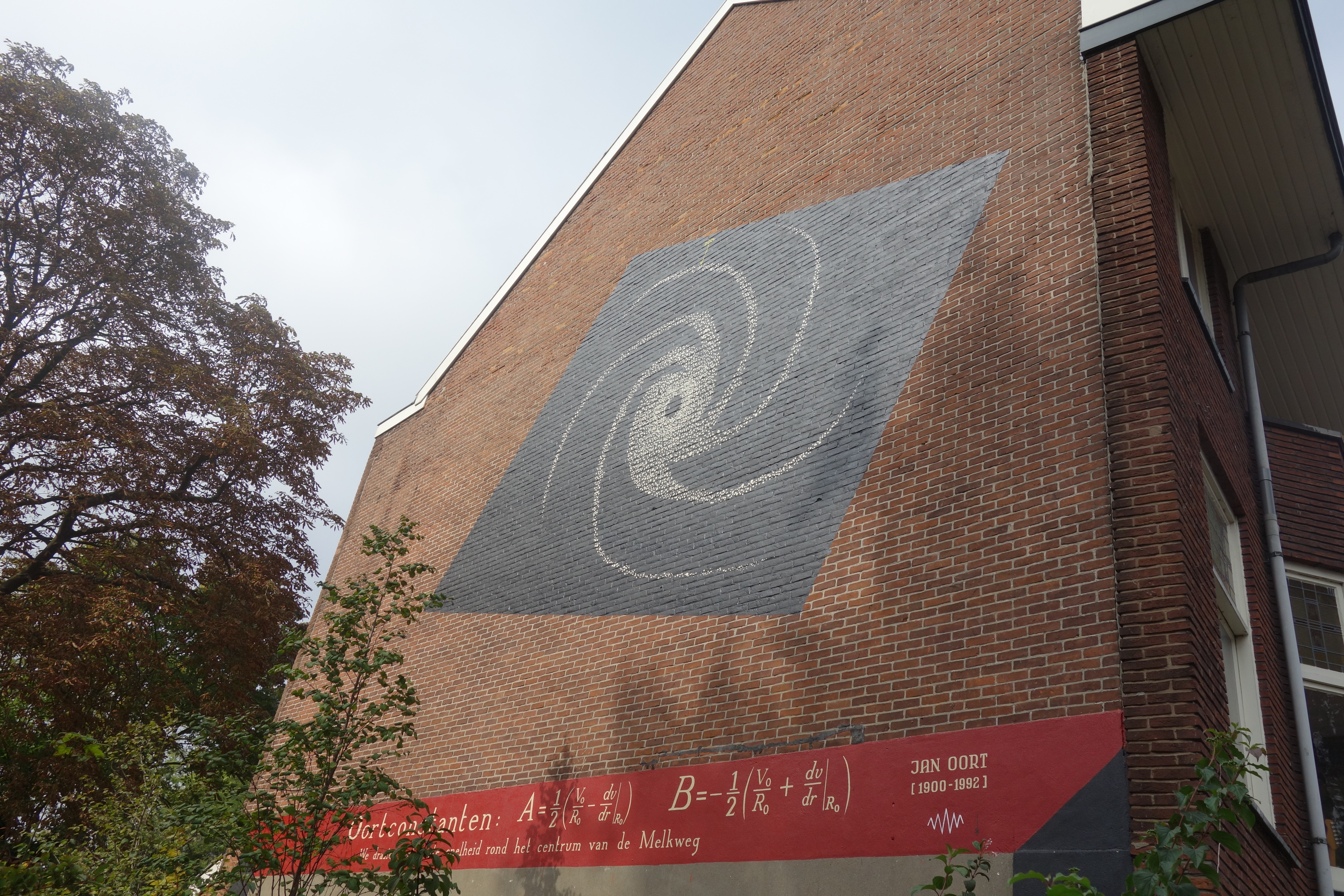 Oort's constants formulas on a wall of Witte Singel 58-C, Leiden (the Netherlands). A = 1 2 ( V 0 R 0 − d v d r | R 0 ) {\displaystyle A={\frac {1}{2 \left({\frac {V_{0 {R_{0 }-{\frac {dv}{dr |_{R_{0 \right)} , B = − 1 2 ( V 0 R 0 + d v d r | R 0 ) {\displaystyle B=-{\frac {1}{2 \left({\frac {V_{0 {R_{0 }+{\frac {dv}{dr |_{R_{0 \right)}